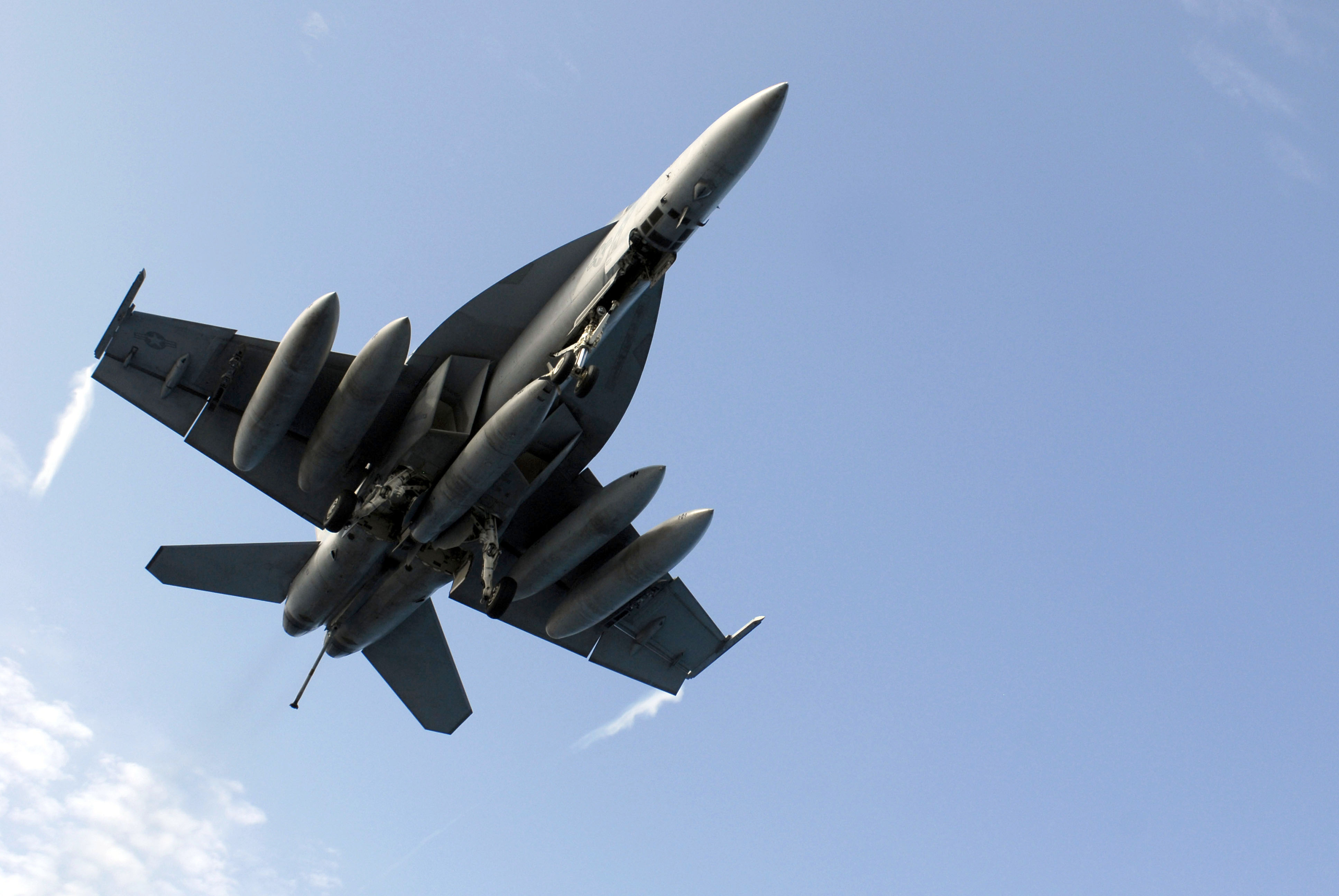 An F/A-18E Super Hornet strike fighter assigned to Strike Fighter Squadron (VFA) 27 lands aboard the aircraft carrier USS Kitty Hawk (CV 63) during flight operations in the Pacific Ocean.